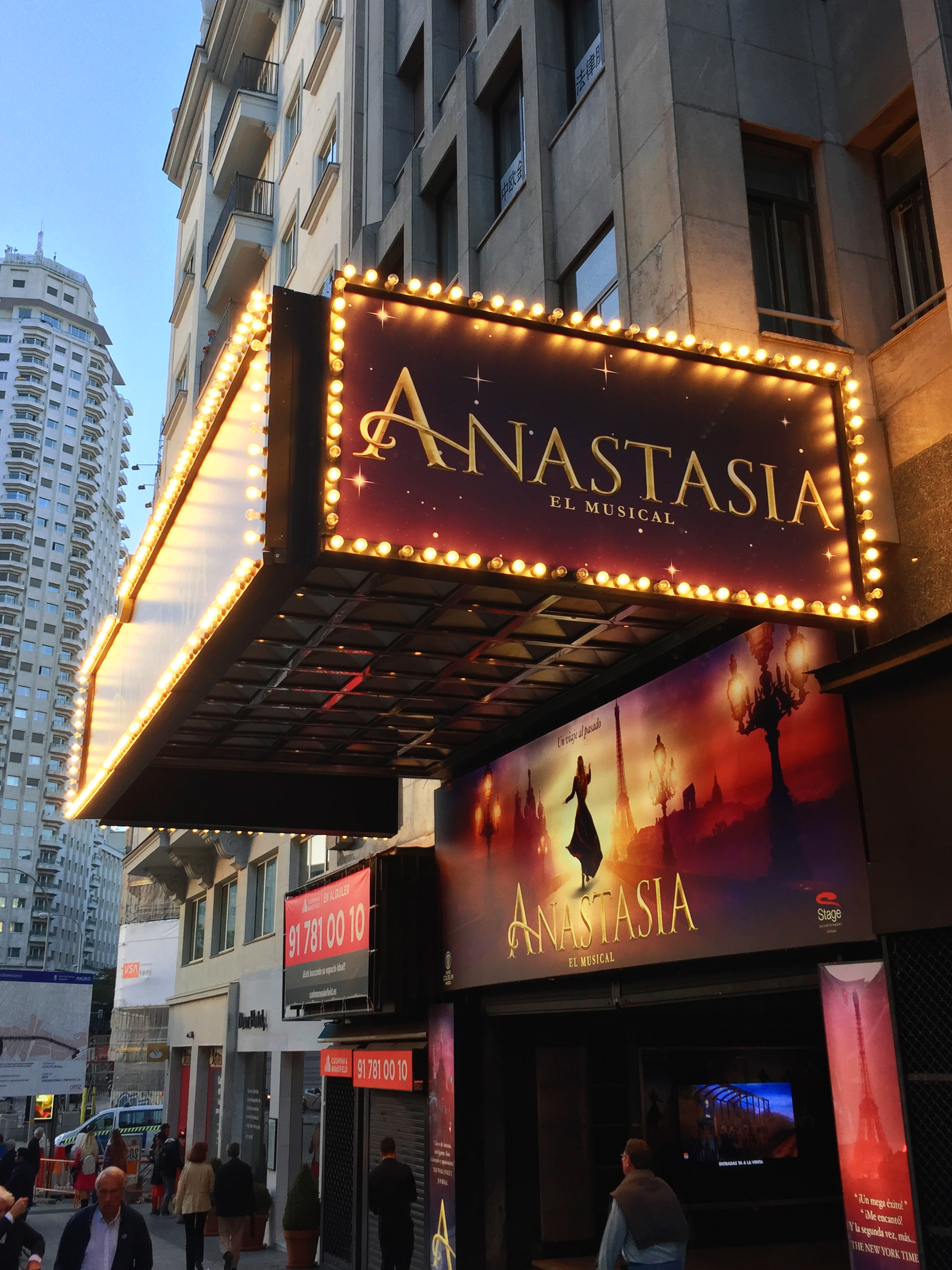 Anastasia at Teatro Coliseum in Madrid